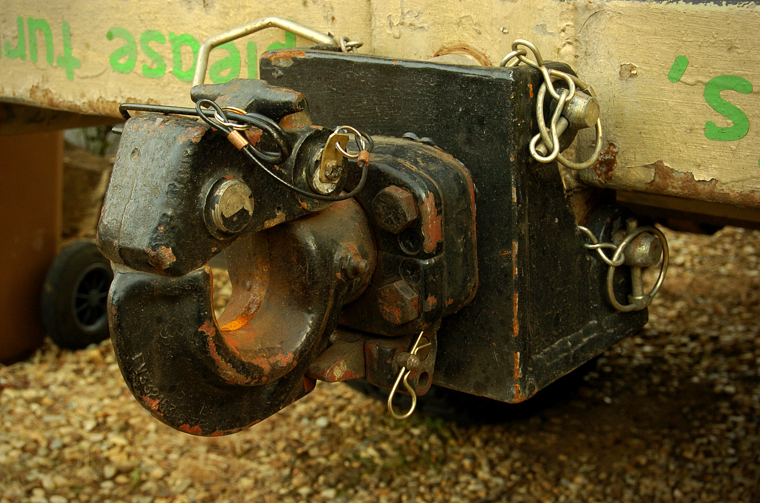 A NATO tow hitch.